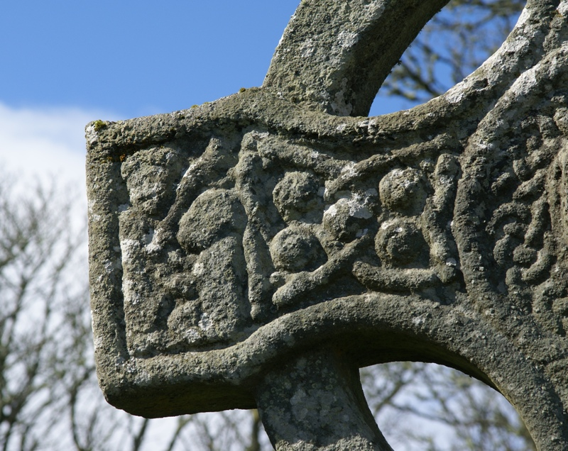 Kildalton Cross, Kildalton, Islay, Argyll and Bute, Scotland. East side detail.